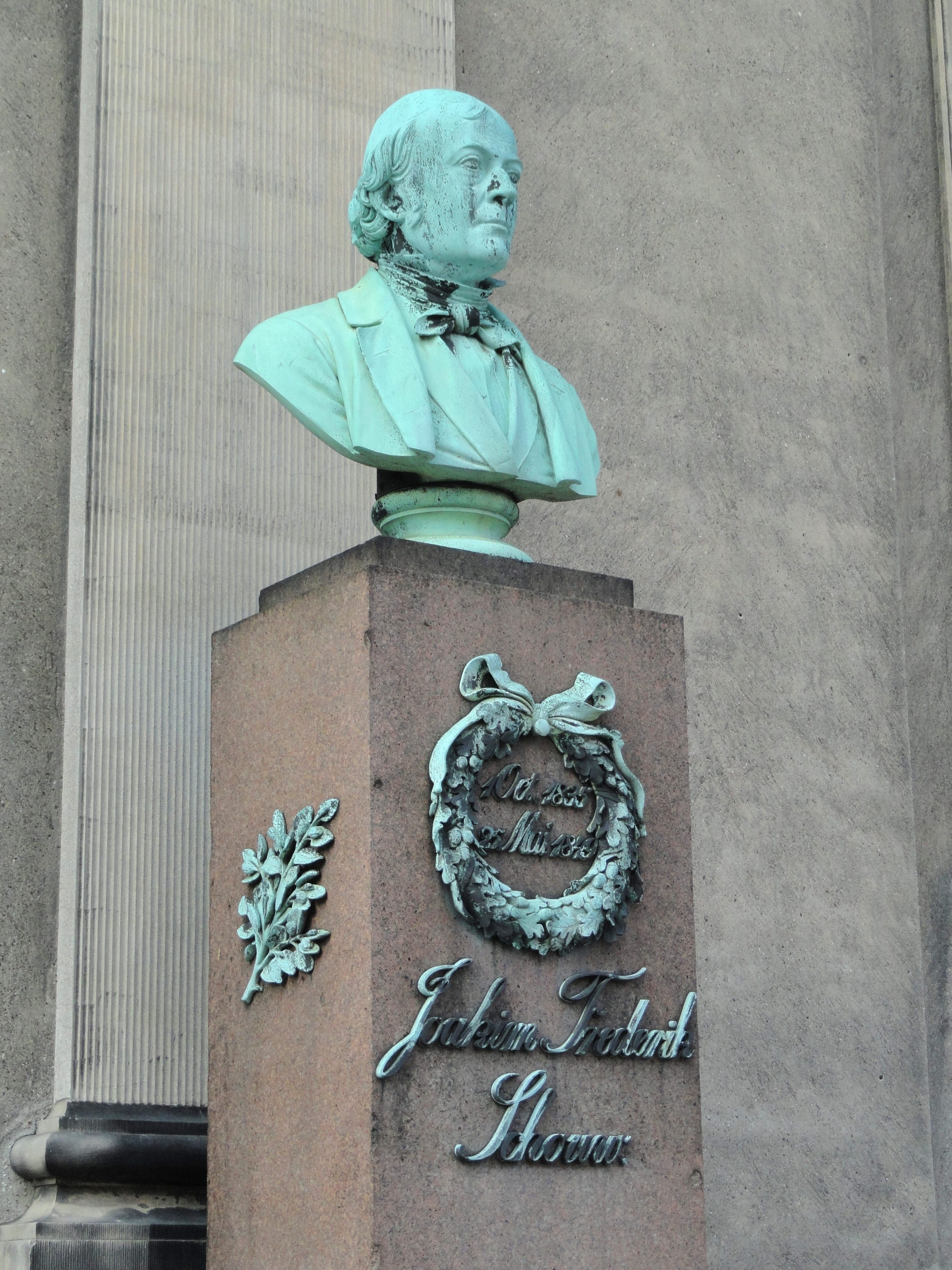 Bust in Frue Plads, Copenhagen, Denmark. This artwork is now in the public domain because its sculptor died more than 70 years ago.